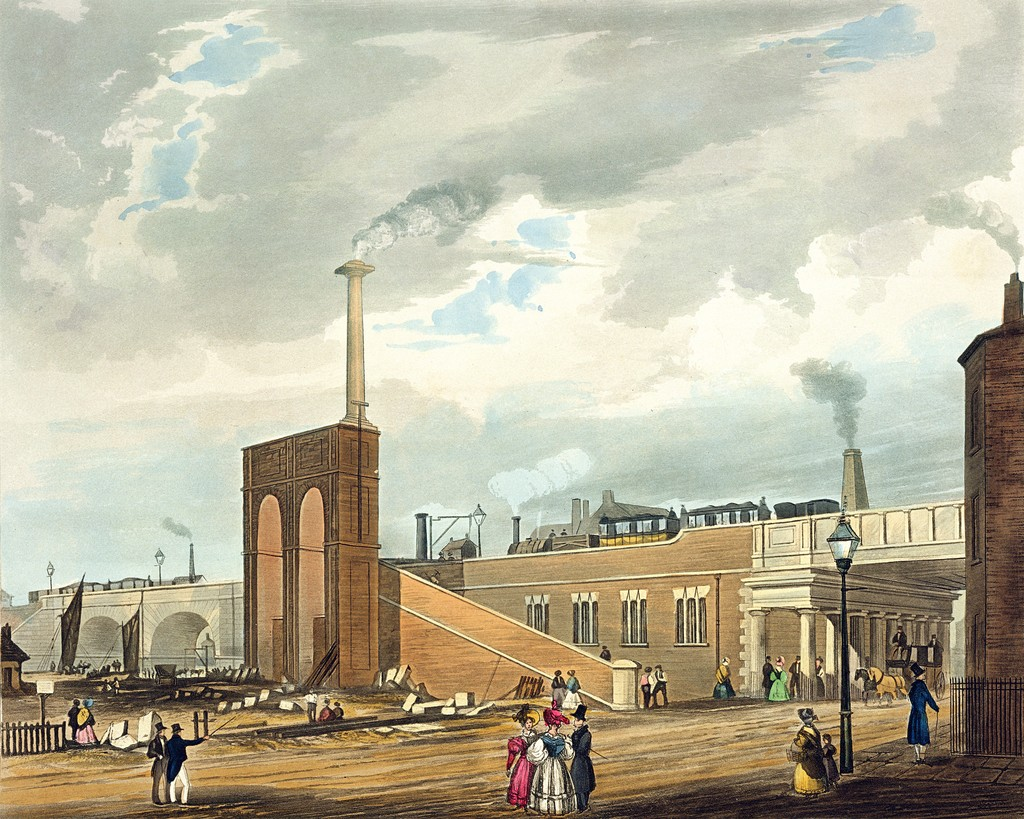 View from the corner of Liverpool Road and Water Street of the Liverpool and Manchester Railway as it approaches Manchester Liverpool Road railway station. To the left the railway crosses the River Irwell by a two-arched stone bridge, with a cart road for the use of the Navigation company. The railway then crosses Water Street over what is considered the first modern girder bridge, created because there was insufficient space for an arch given the roadway below, but too wide a gap for a flat span using existing conventional means of the time.